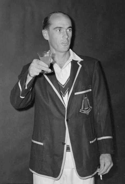 Portrait of Australian Cricket Captain Ian Craig toasting the Queen within an unknown building, probably Wellington City